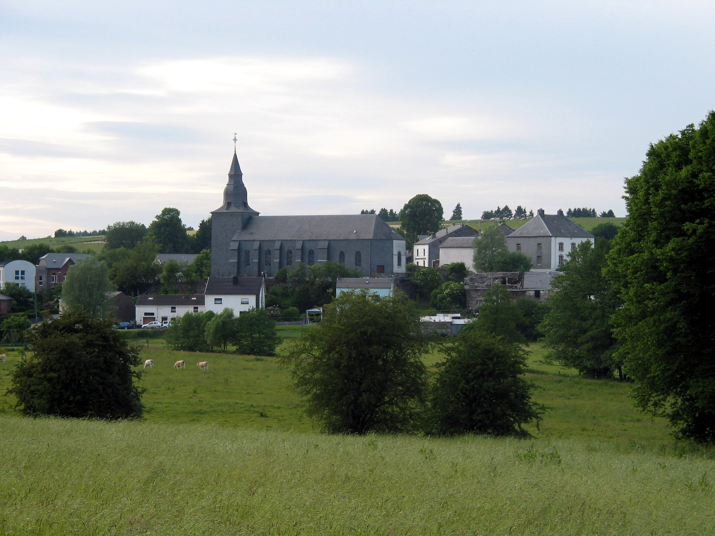 View on the village of Orgeo, Belgium, at the end of the day.